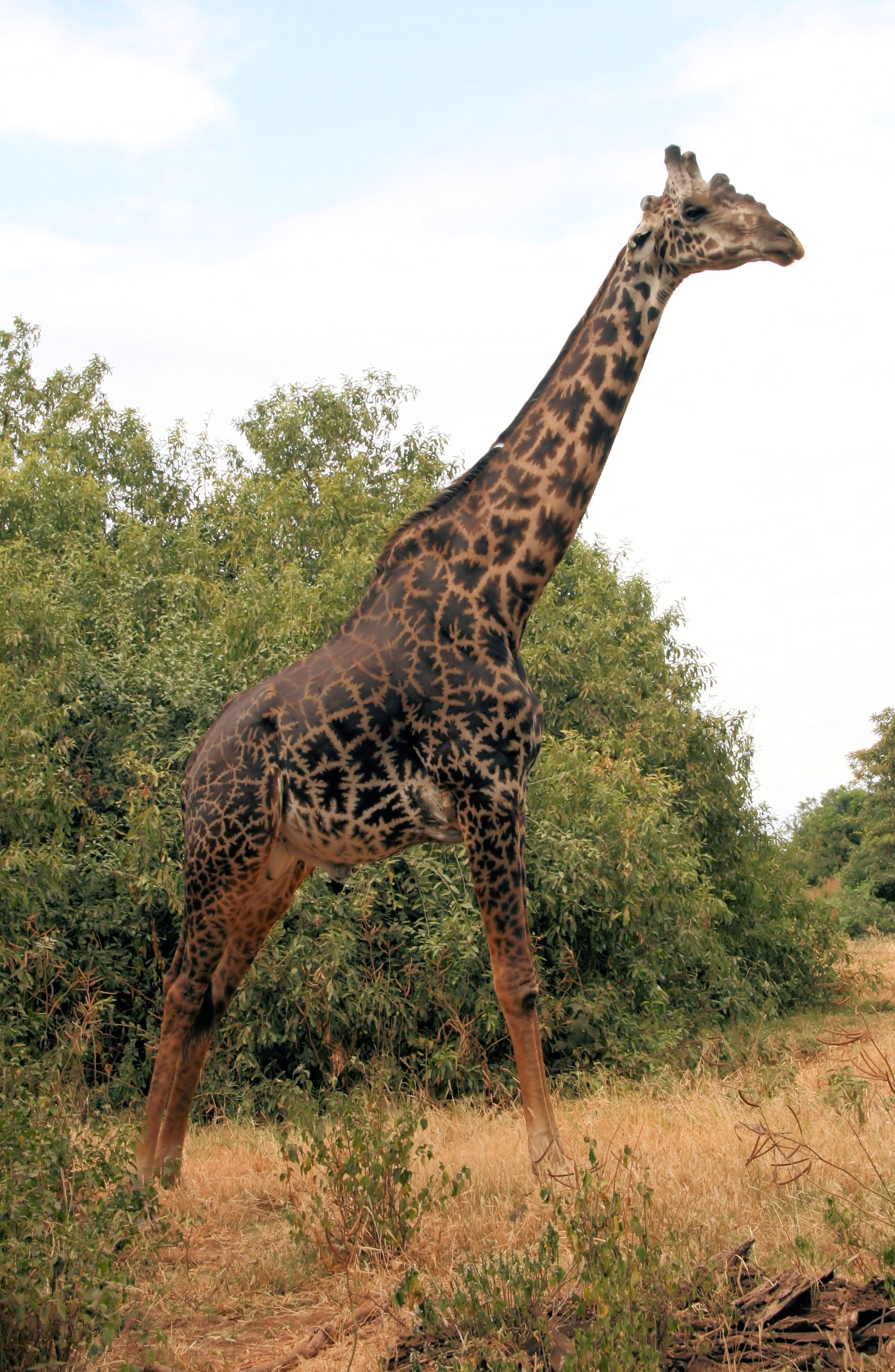 Masai Giraffe (Giraffa camelopardalis tippelskirchi) male, picture taken at Lake Manyara Nationalpark, Tanzania